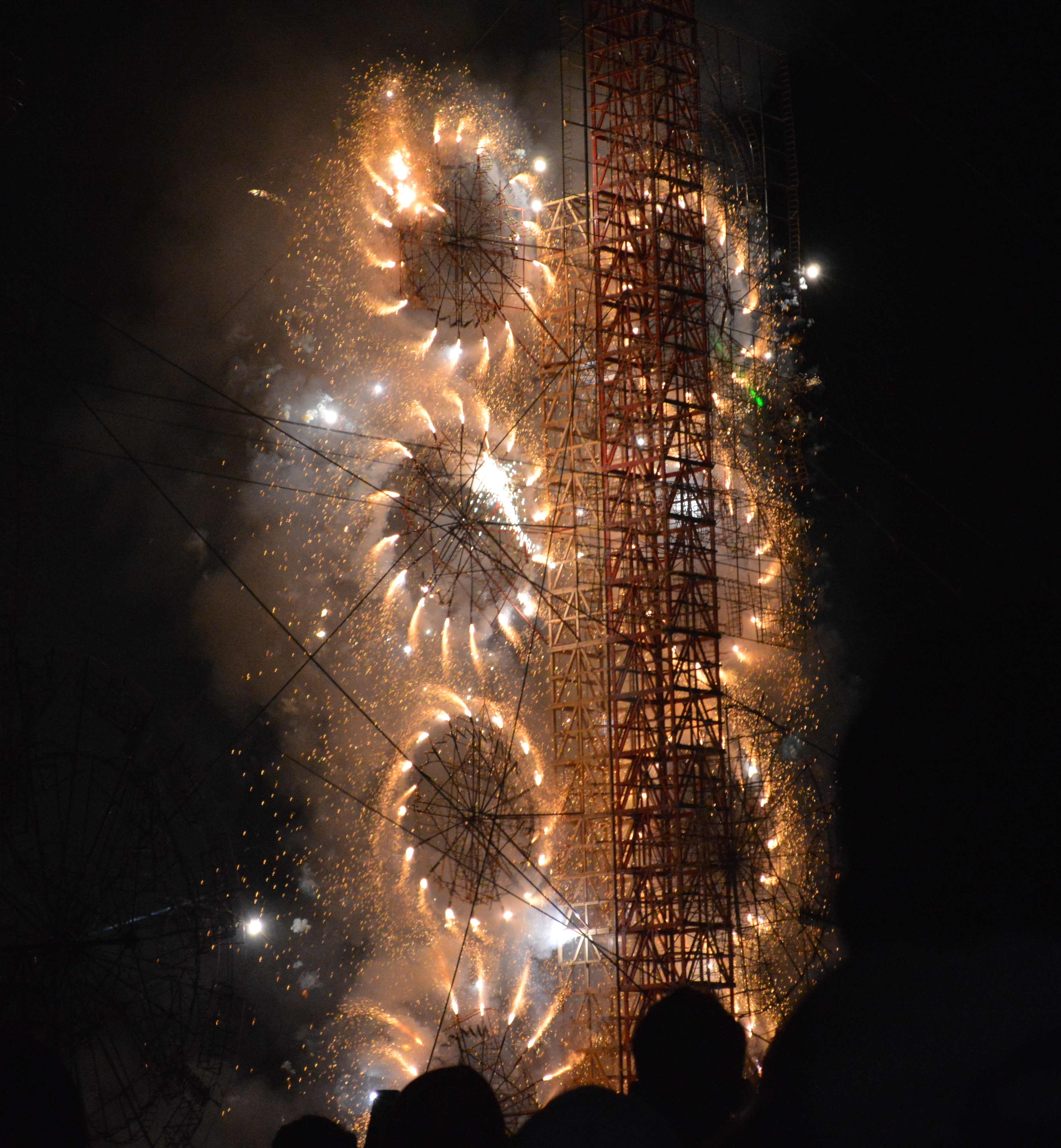 Sections of fireworks castles lit at the Feria Nacional de Pirotecnia in Tultepec, State of Mexico, Mexico